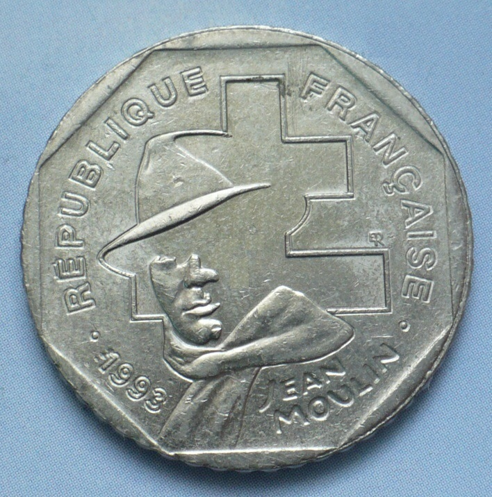 2 Franc 1993